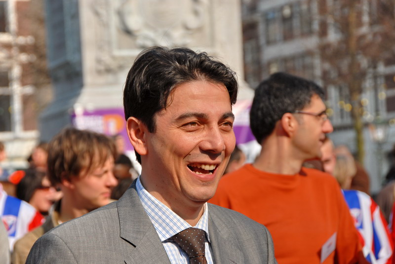 Member of Dutch Parliament.